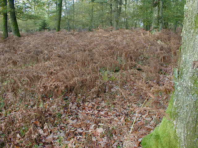 Drought ferns (Pteridium aquilinum) in a wood in Wallonia (Belgium) in March; site: "Li Crahire", Transinne.